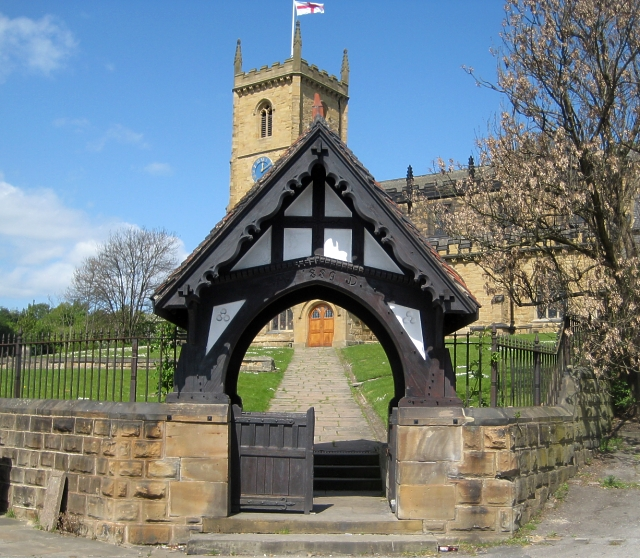 Church of the Holy Trinity lych gate Rothwell parish church,(Holy Trinity) lych gate has the inscription “A 1889 D” carved on the central curved arch.